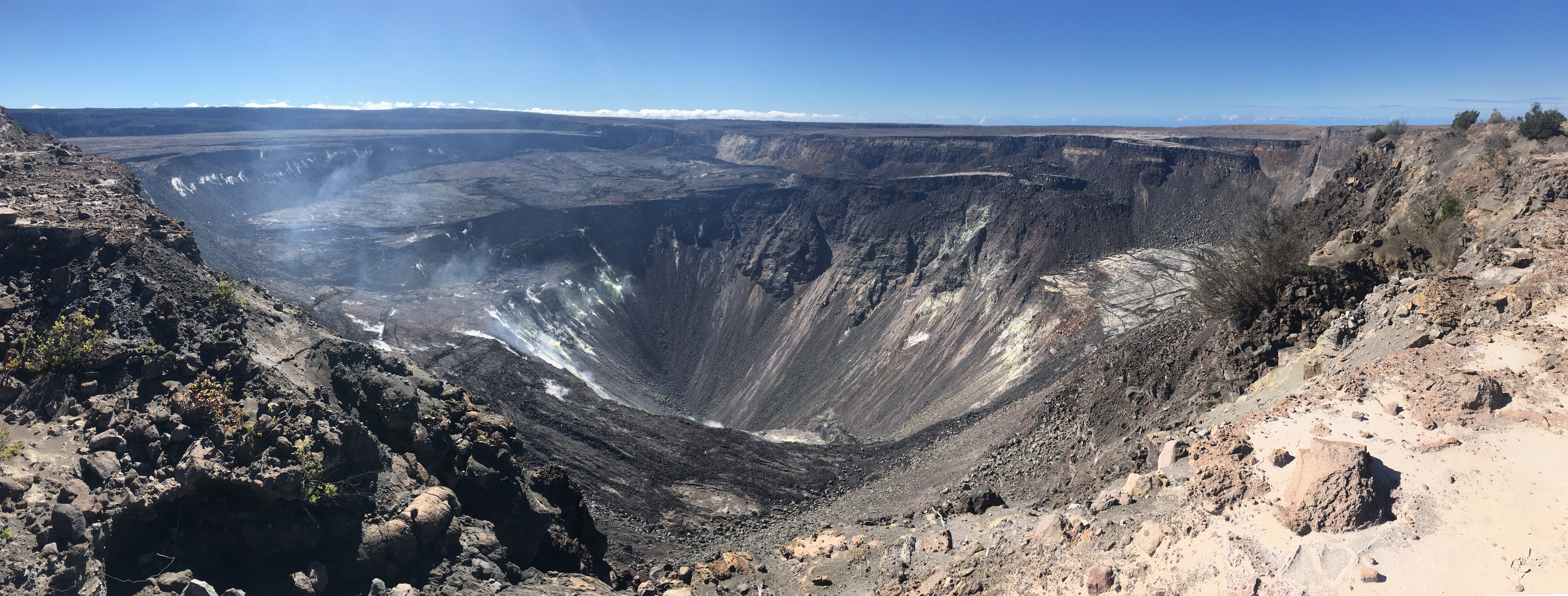 Good weather provided clear views of Halema‘uma‘u during a routine visit by US Geological Survey scientists to the webcam on the northwest rim of Kīlauea Caldera. The large crater in the center is Halema‘uma‘u. At left, the floor of the larger Kīlauea Caldera can be seen. USGS photo by M. Patrick, 05/17/2019.